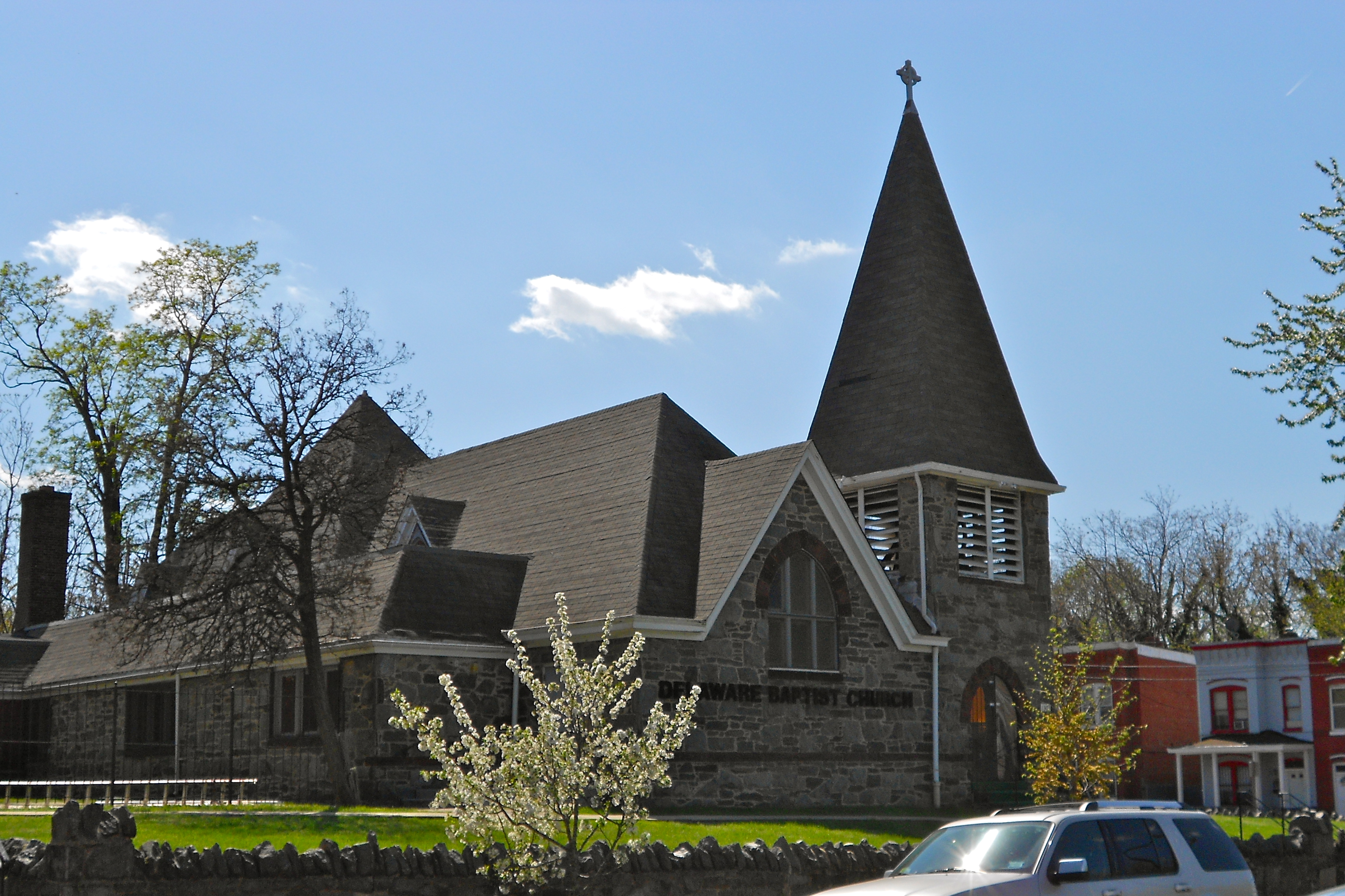 Church in Anacostia Historic District on the NRHP since October 11, 1978. The district is roughly bounded by Martin Luther King, Jr. Avenue (on west); Good Hope Road (on north); 16th Street; Fendall Street; V Street; 15th Street and the Frederick Douglass National Historic Site; Maple View Place, in SE quadrant of Washington, DC. Comprises approximately 20 squares and about 550 buildings built between 1854 and 1930